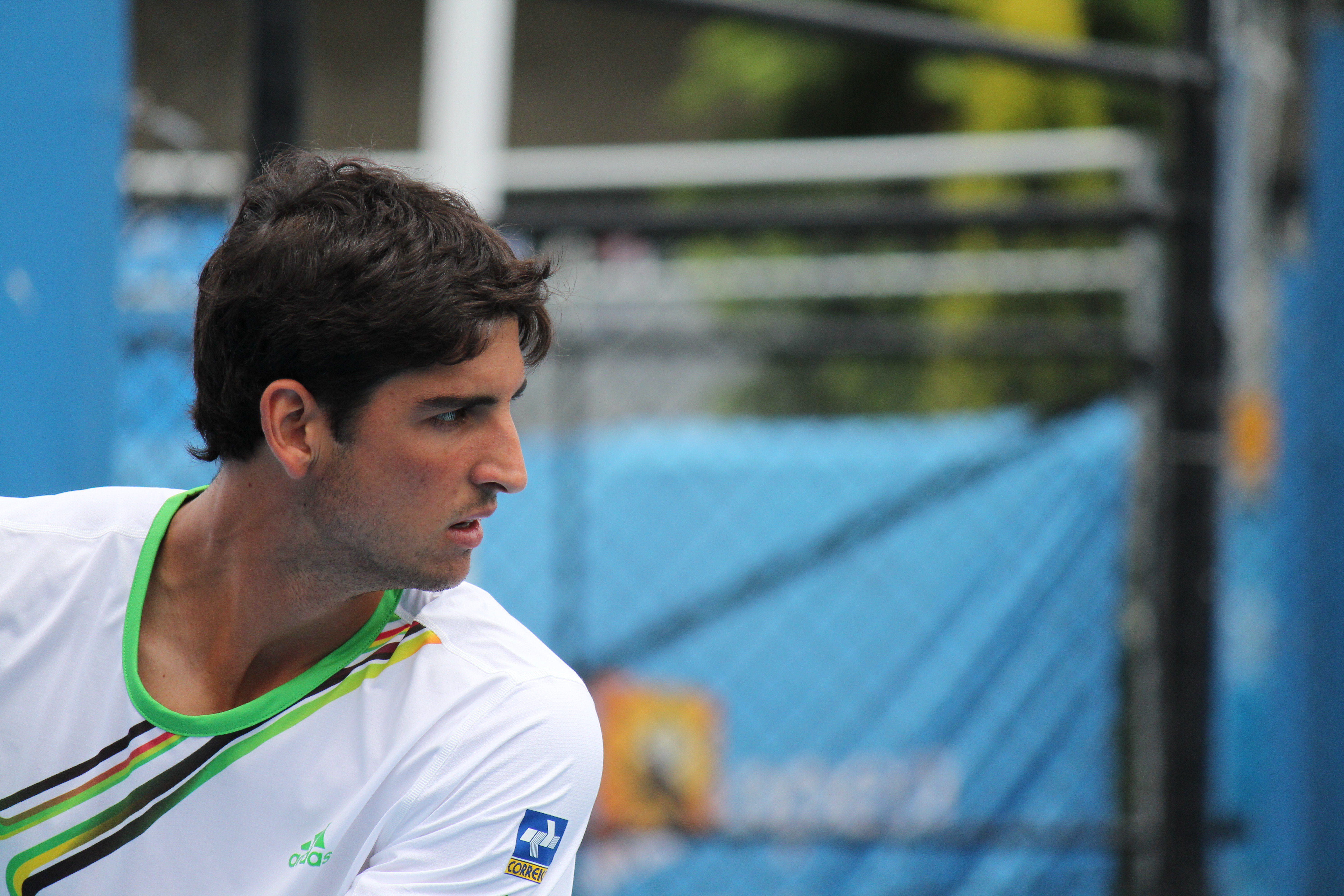 Thomaz Bellucci during first round Australian Open 2011 practice session.